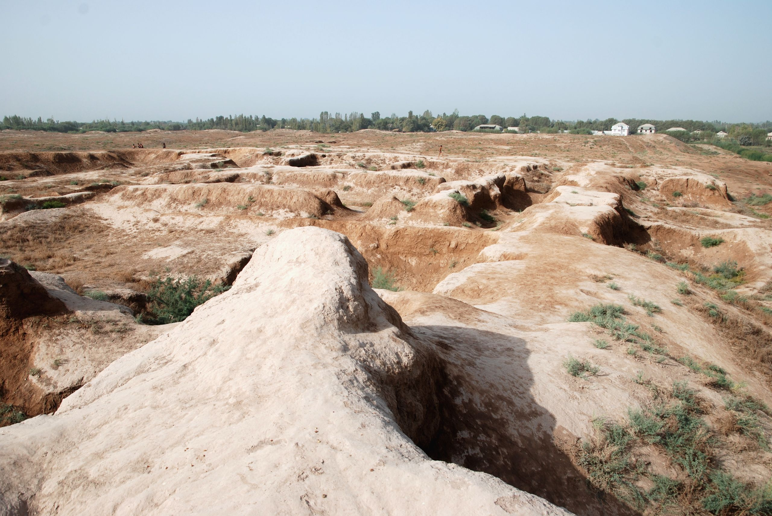 Kafyr Kala, citadel, Kolkhozobod